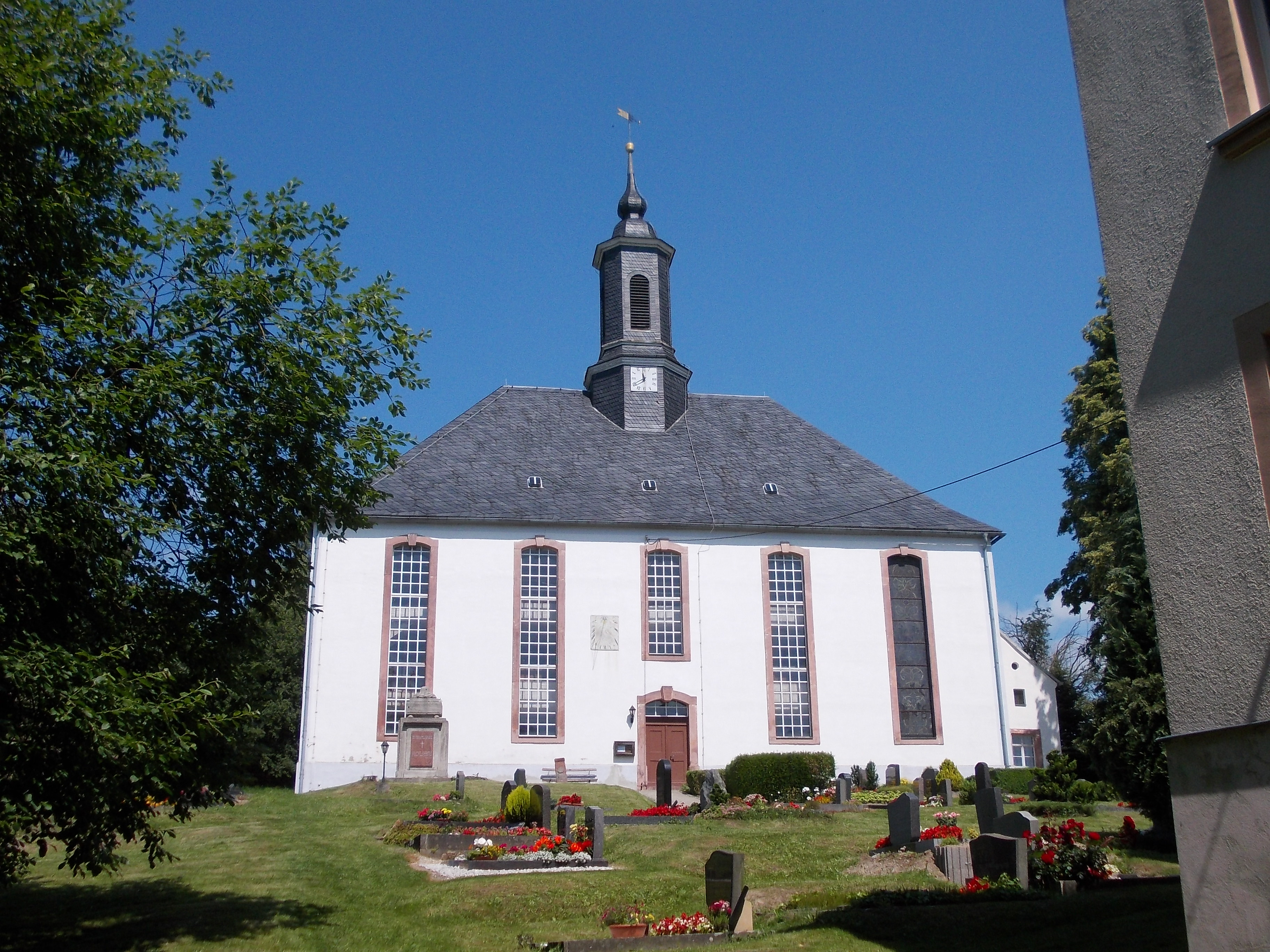 Erlbach church (Colditz, Leipzig district, Saxony)